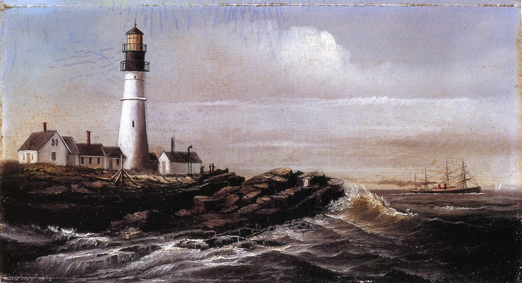 "Portland Headlight, Maine," by William Aiken Walker, oil on board.